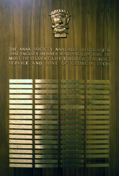 Plaque listing winners of the ANAK Society Faculty Award, located in the Georgia Tech Student Center.